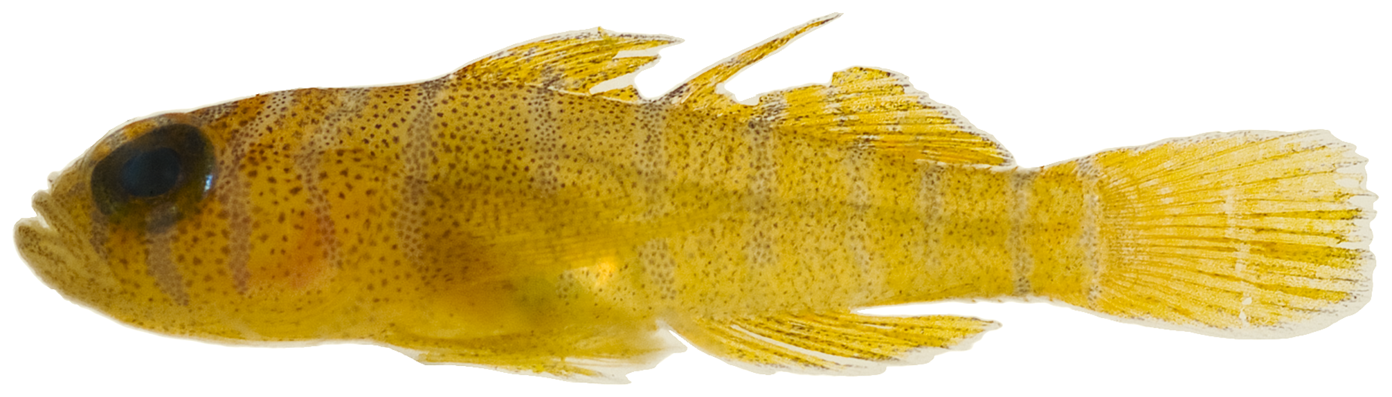 Priolepis hipoliti (Metzelaar, 1922)—rusty goby, 12.2 mm SL, female. Photo by JT Williams.